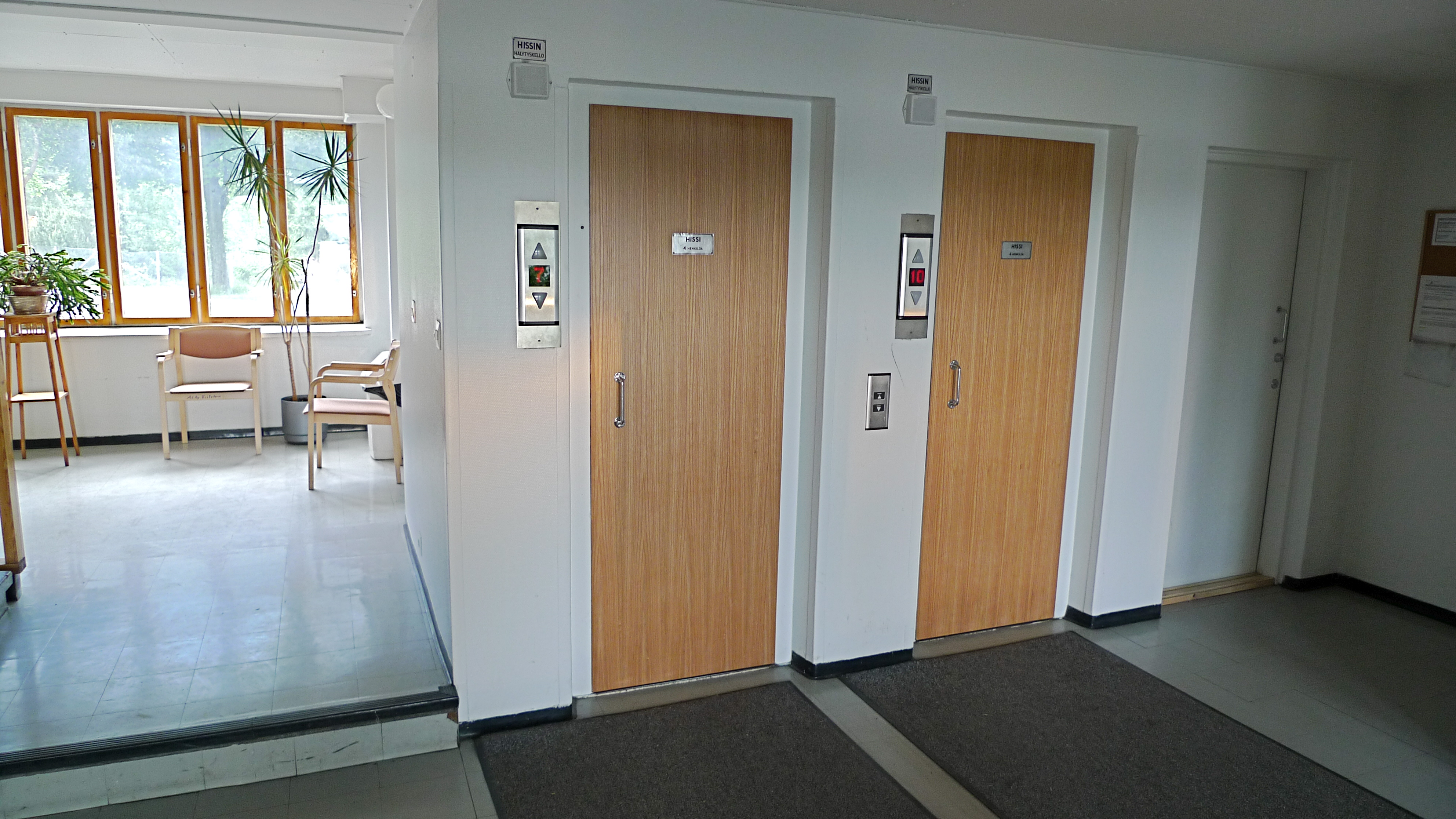 Lobby and the elevator doors of the Viitatorni-building, designer by Alvar Aalto.